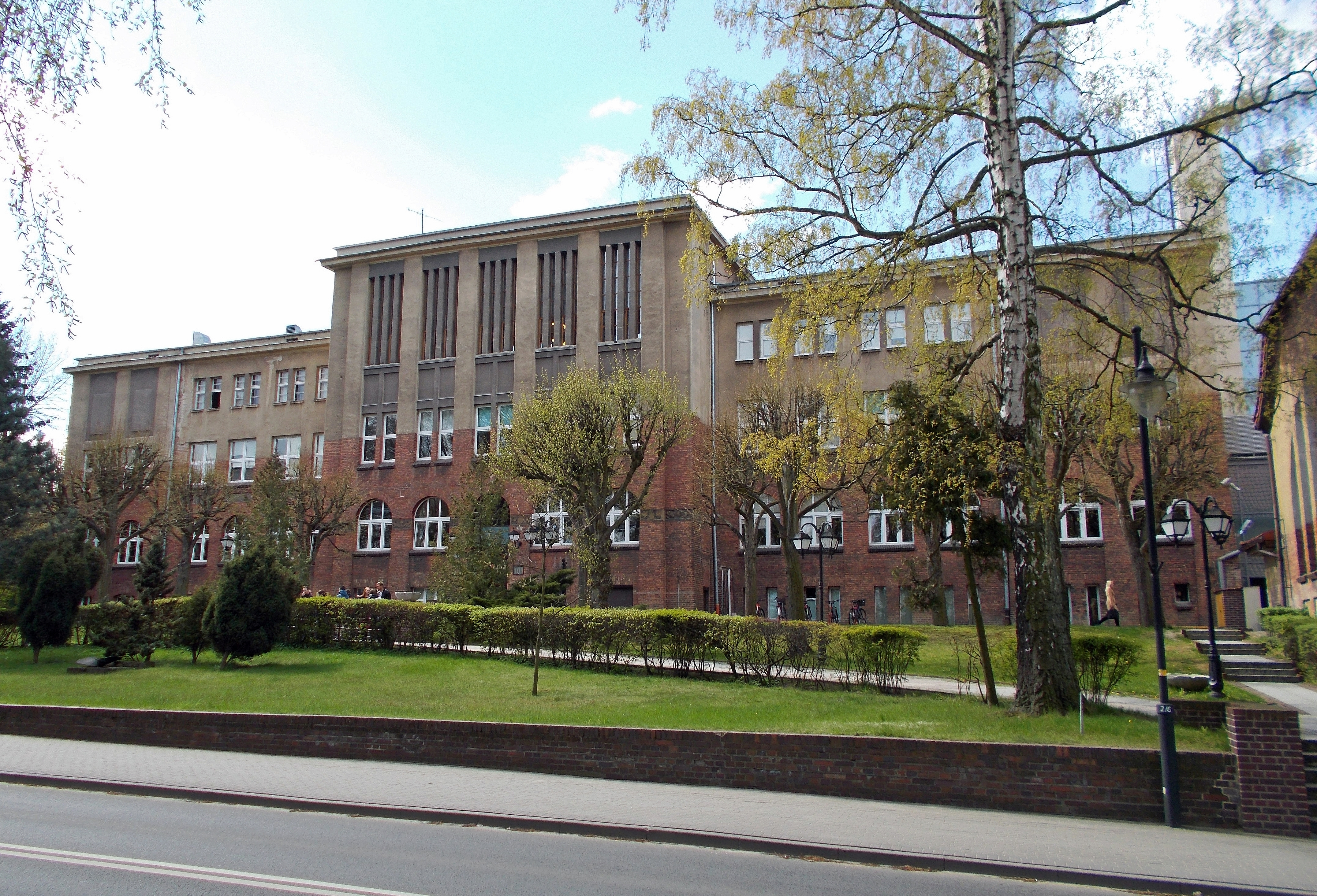 Faculty of Management, University of Gdańsk